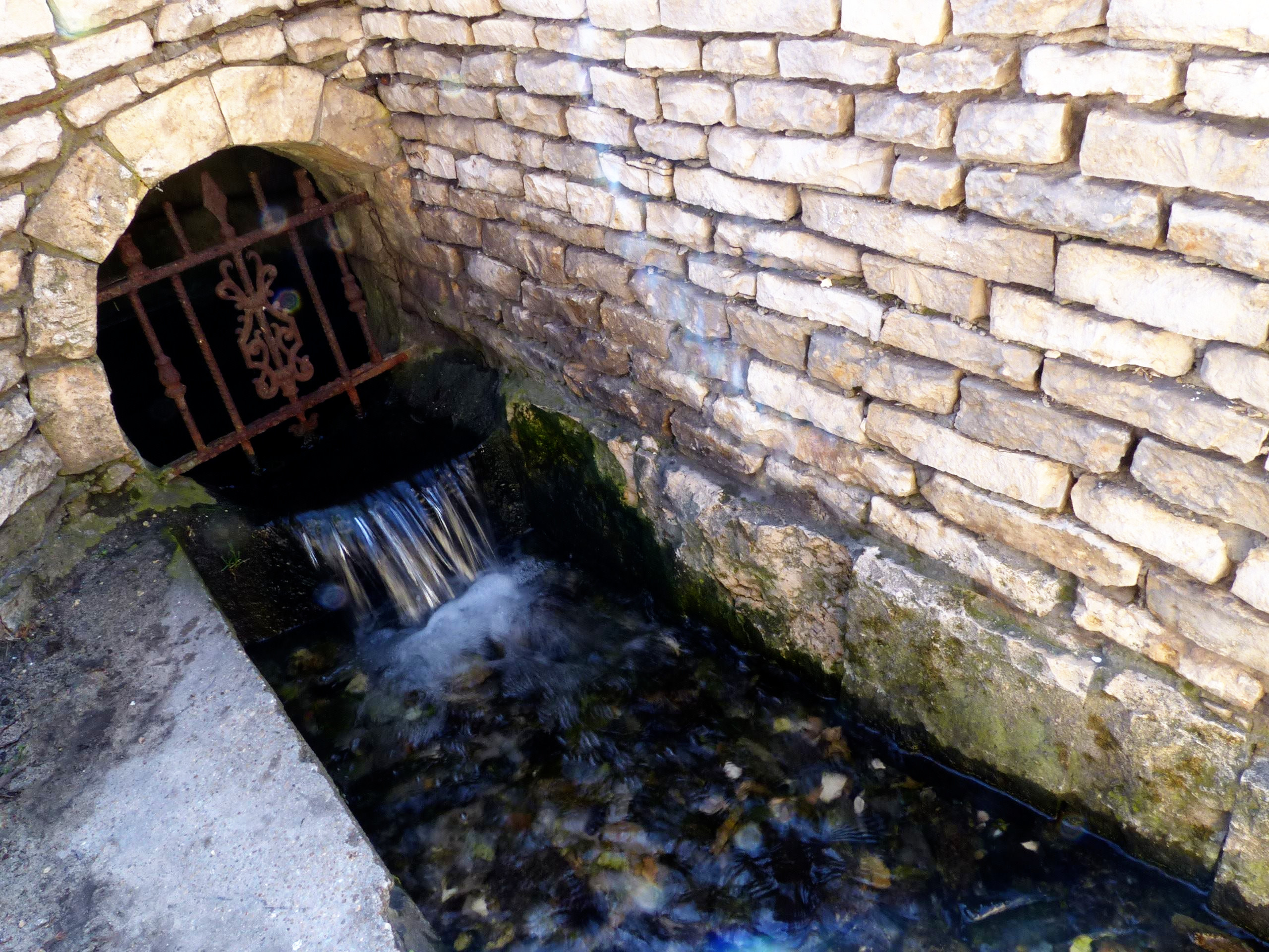 The source of Warta river in Zawiercie under the Nepomucen Chapel.